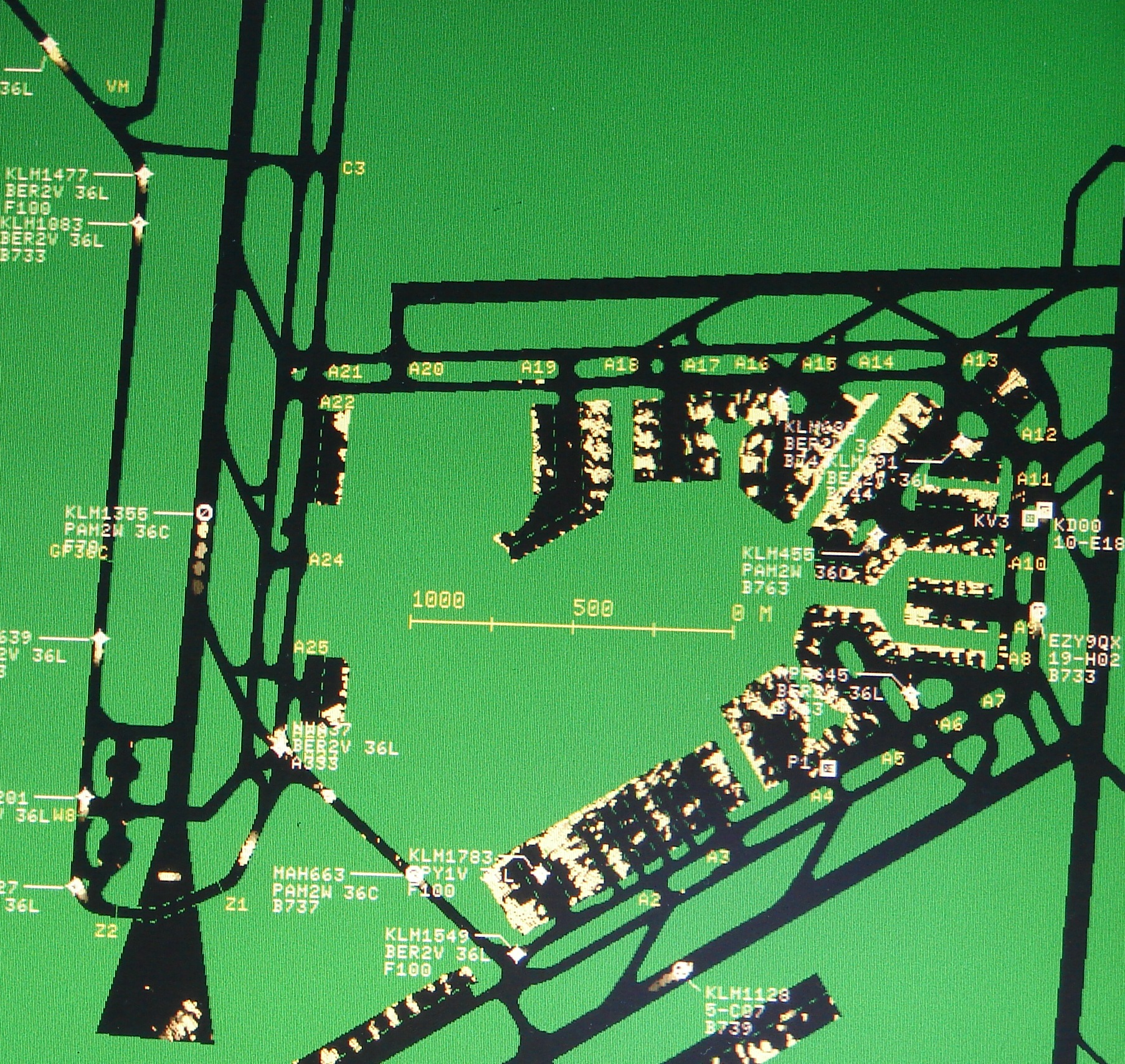 Display of the ground radar system, EHAM TOWER, Schiphol Airport